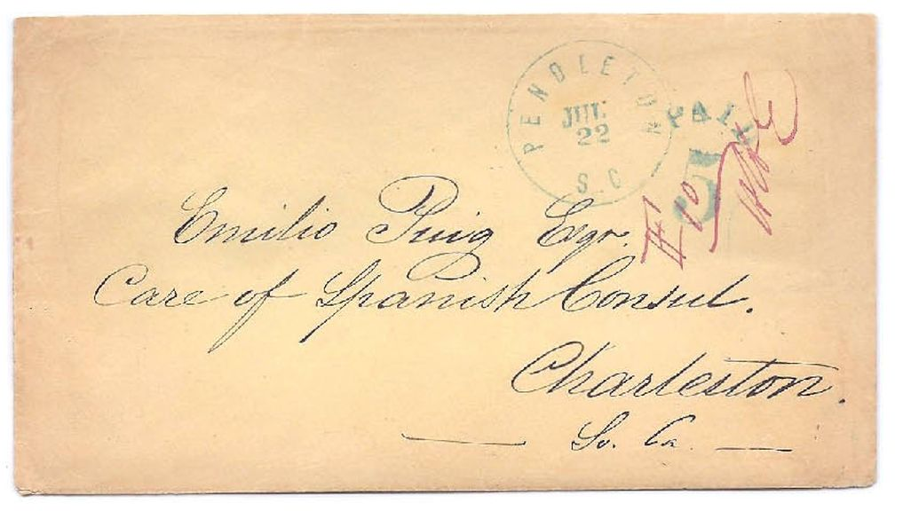 Confederate stampless mail